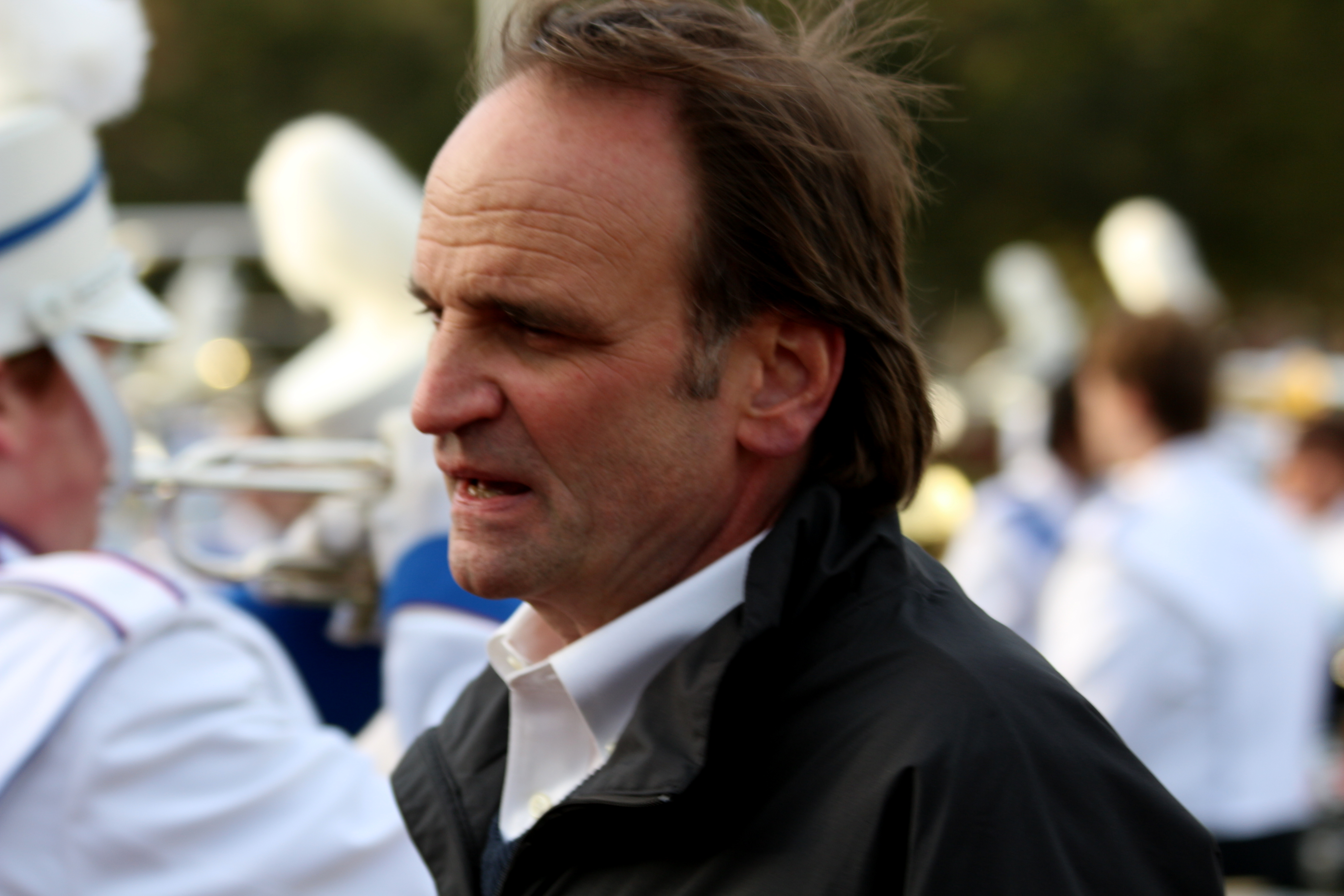 Dan Lutz, director of the University of Massachusetts Lowell Riverhawk Marching Band.